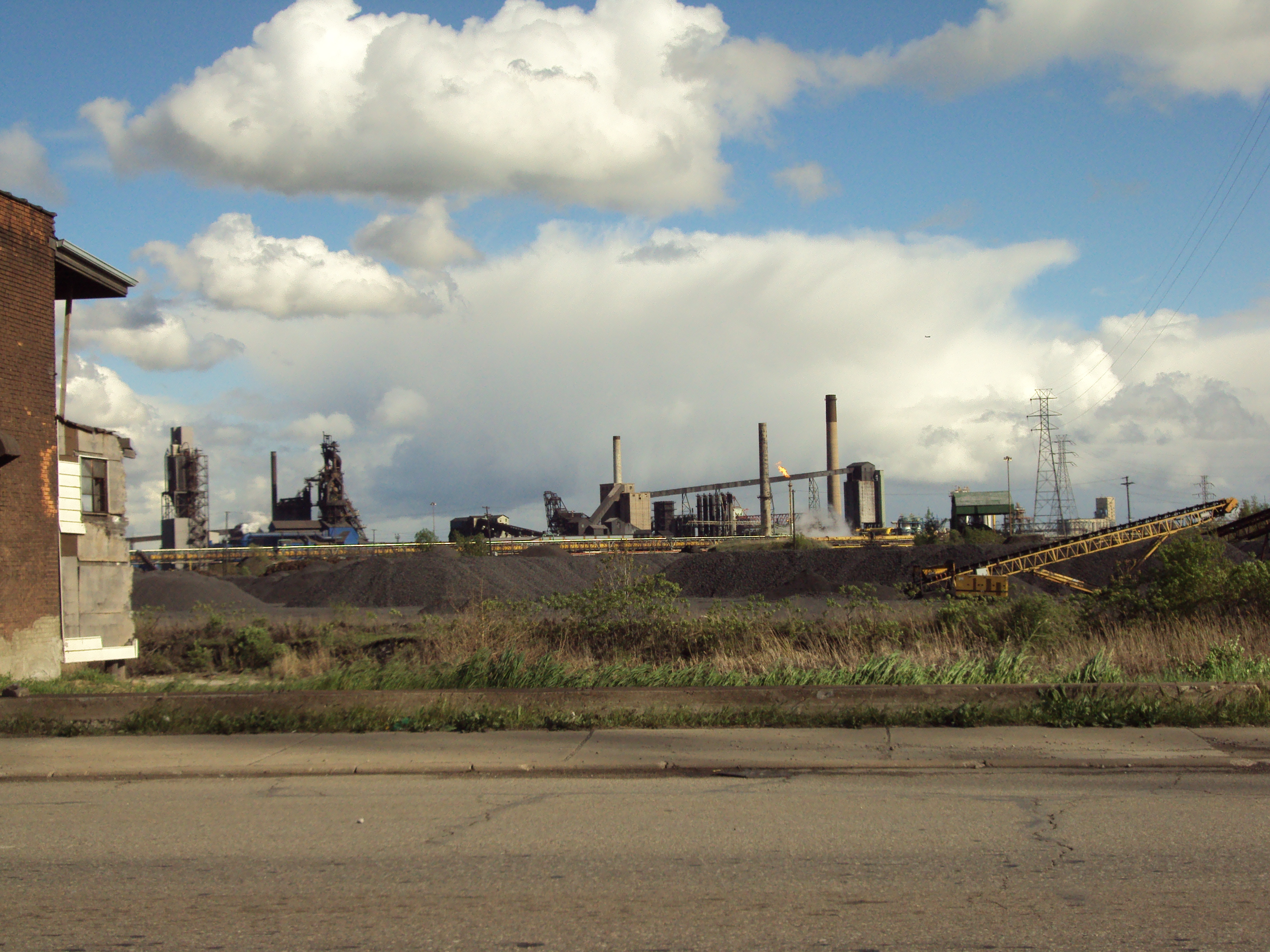 Delray, Detroit MI